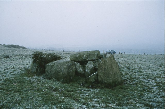 Passage tomb at Matthewstown, Co. Waterford. One of a group of small passage tombs in Co. Waterford with affinities to the tombs in the Scilly Isles, hence the name 'Scilly-Tramore group' 842 924131. Indicated as 'Leaba Thomáis Mhic Chába' on the O.S. six-inch map.